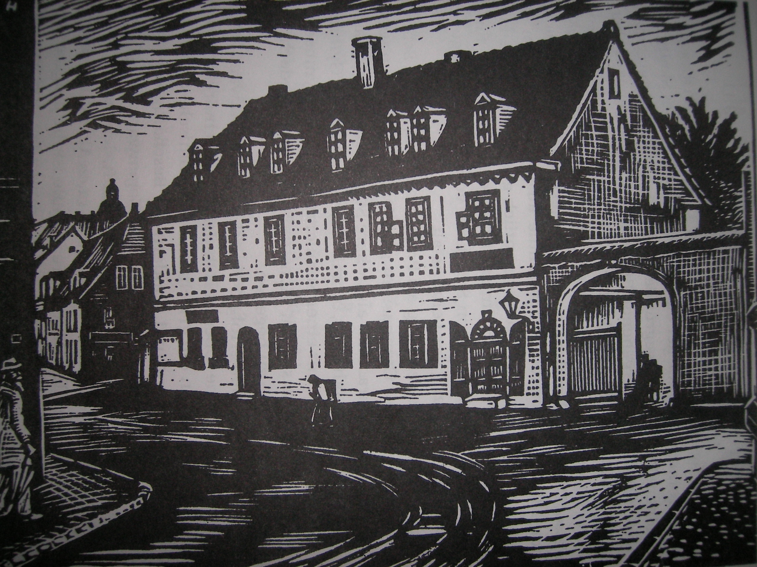 Privatschule Saalstraße